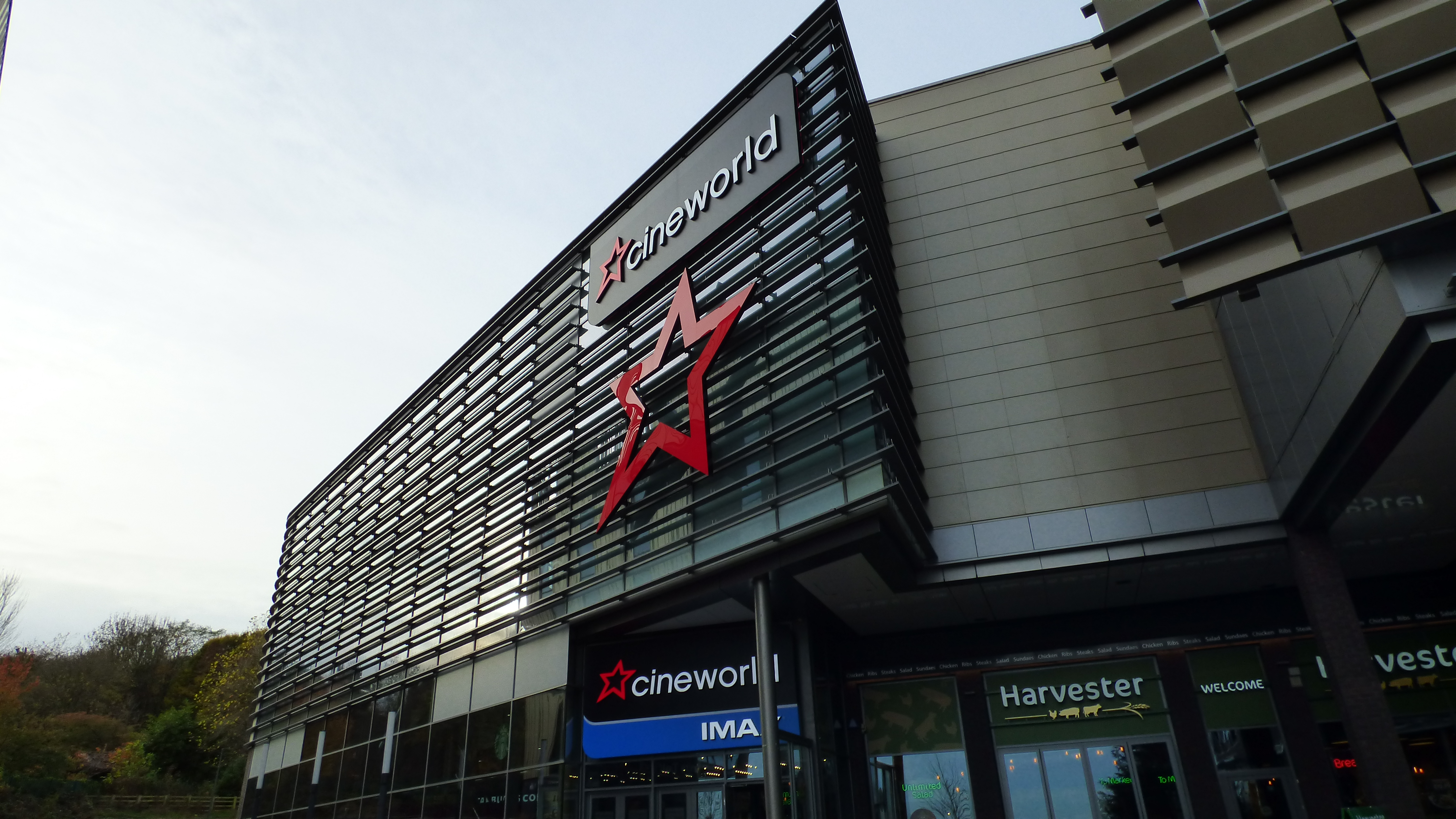 Cineworld Telford Centre Shropshire